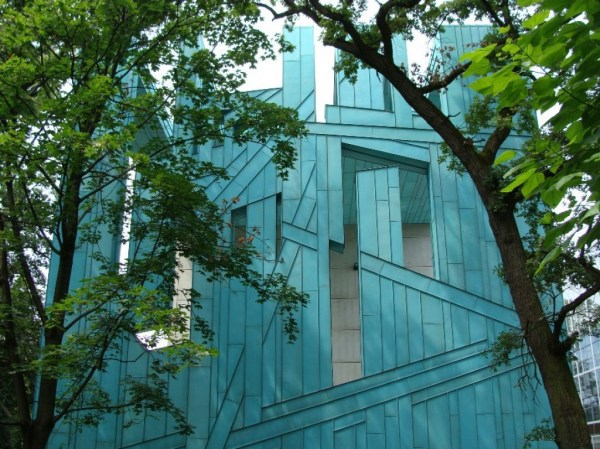 Gate of the Life Sciences Institute (summer)